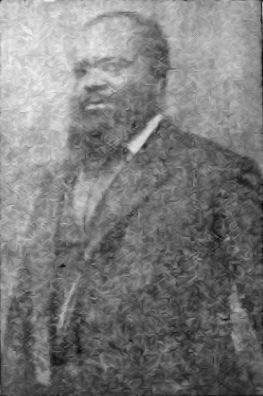 Photograph of Joseph J. Ross, 14th Vice President of Liberia.